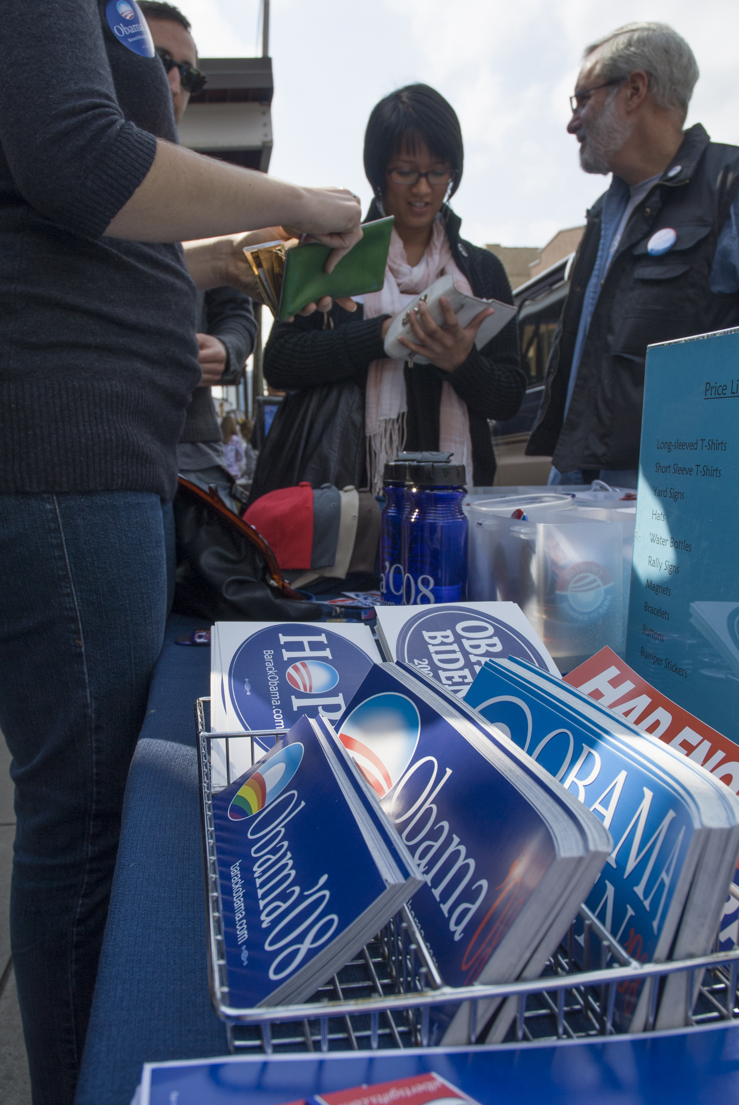 Obama '08 campaign merchandise for sale in the Strip District of Pittsburgh.